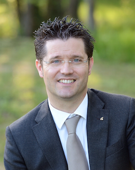 MARKUS MAURMAIR